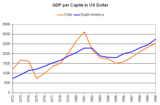 Data from [1] United Nations Statistics Division. GDP per Capita (in US Dollar) at current prices [2] of Chile (orange) and South America (blue).